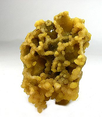 Cadmium, Hemimorphite, Smithsonite Locality: Granby Field, Tri-State District, Newton County, Missouri, USA (Locality at ) Size: small cabinet, 8.7 x 5.7 x 3.6 cm Cadmium-rich hemimorphite (calamine) Bright, lustrous, yellow, cadmium- rich, hemimorphite has formed a complete crust, with crystals clusters to .7 cm across. This deposit is best known for this species including the famous, huge plate in the Carnegie Museum which displays cadmium- rich hemimorphite after calcite. The material was found in the late 1800s and early 1900s,mostly prior to WWI, and is VERY RARE. This particular speicmen exhibits unusual lustre and sparkles as if you had dropped glitter on it! It has intense color and lustre!